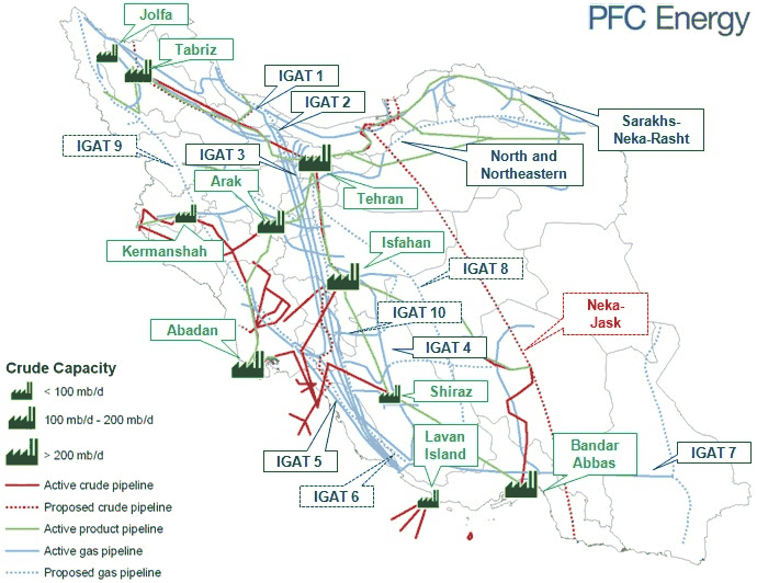 Iran - Oil & natural gas infrastructure